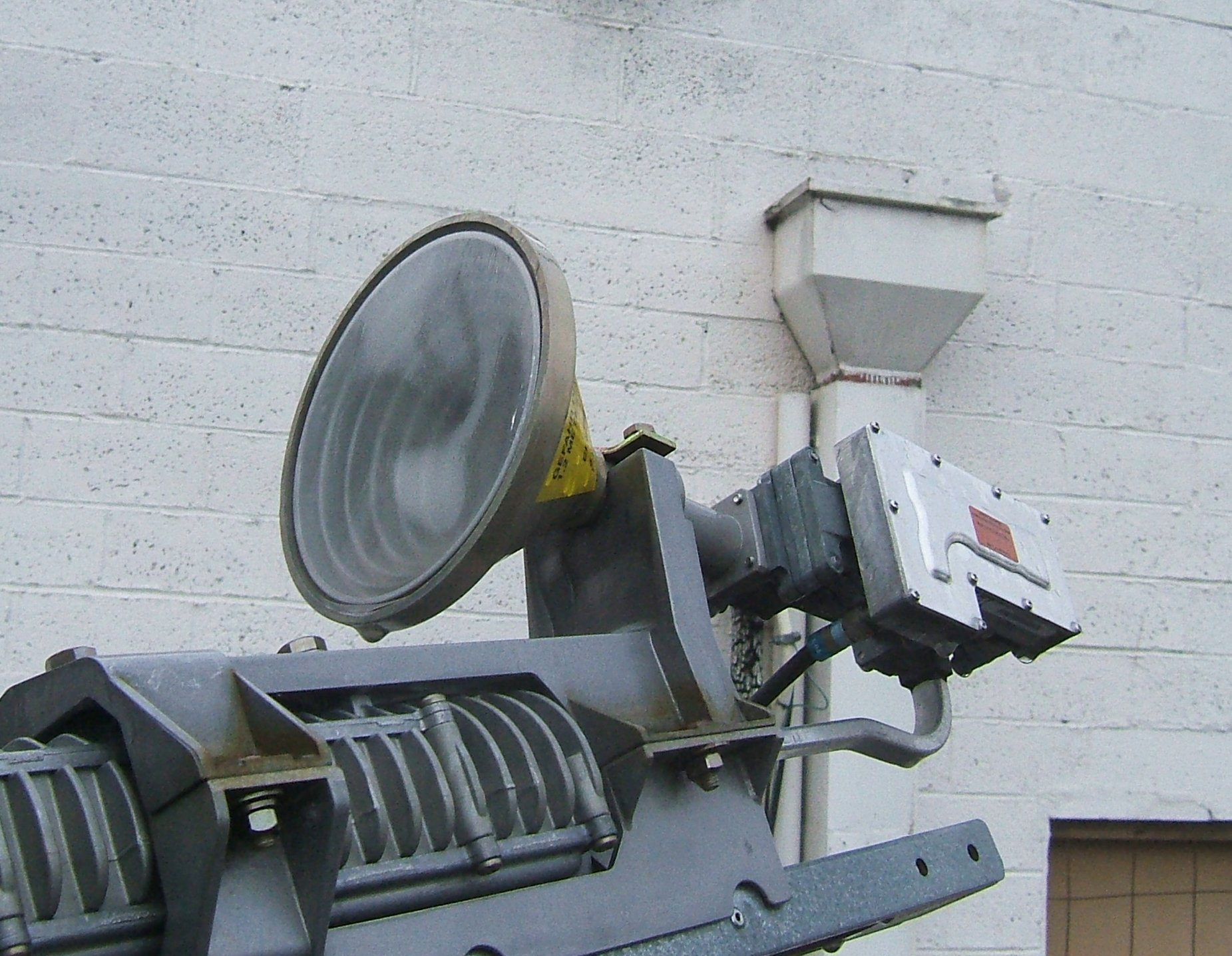 Closeup of a LNB (low noise block) on a Hughes Direcway satellite dish on the roof of a convenience store in Mount Vernon, Washington, USA. The Hughes Direcway service provides broadband satellite internet service for businesses. This device receives the microwave signal from the satellite after it is focused by the dish, amplifies it so it is stronger, and converts it to a lower frequency so it can be sent by a coaxial cable into the building. The microwaves are collected by the corrugated horn antenna at front and conducted by waveguide into the device. The steps or corrugations visible on the inside surface of the horn reduce the beam width, create a more symmetrical beam pattern, and reduce cross-polarization. The complicated mechanism at bottom allows the LNB to be positioned precisely at the focus of the dish.